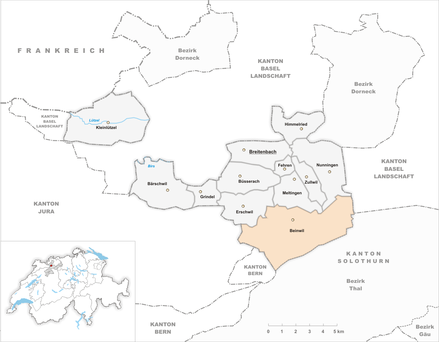 Municipality Beinwil